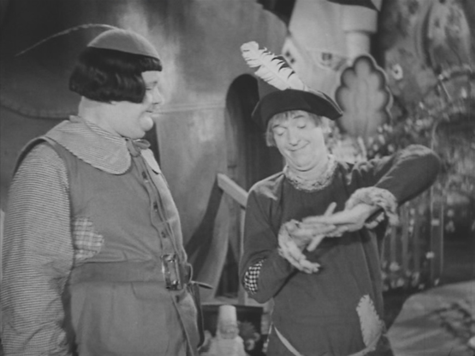 Screenshot from Babes in Toyland, also known as March of the Wooden Soldiers.